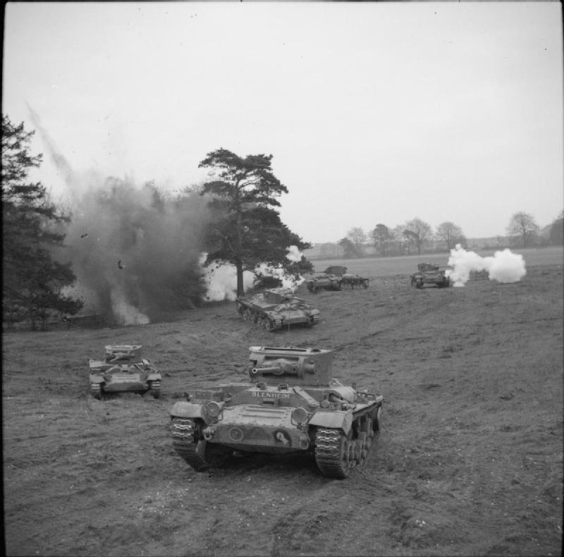 The British Army in the United Kingdom 1939-45 Valentine tanks of 16th/5th Lancers, 6th Armoured Division, training at Brandon near Newcastle, 9 December 1941.